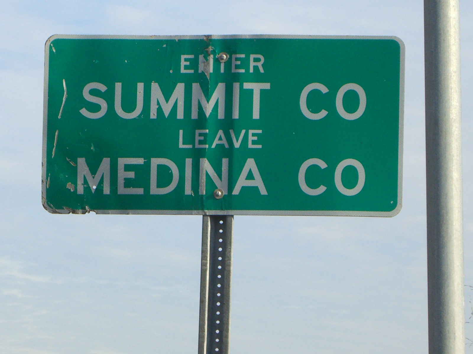 Photo by Nick Juhasz.